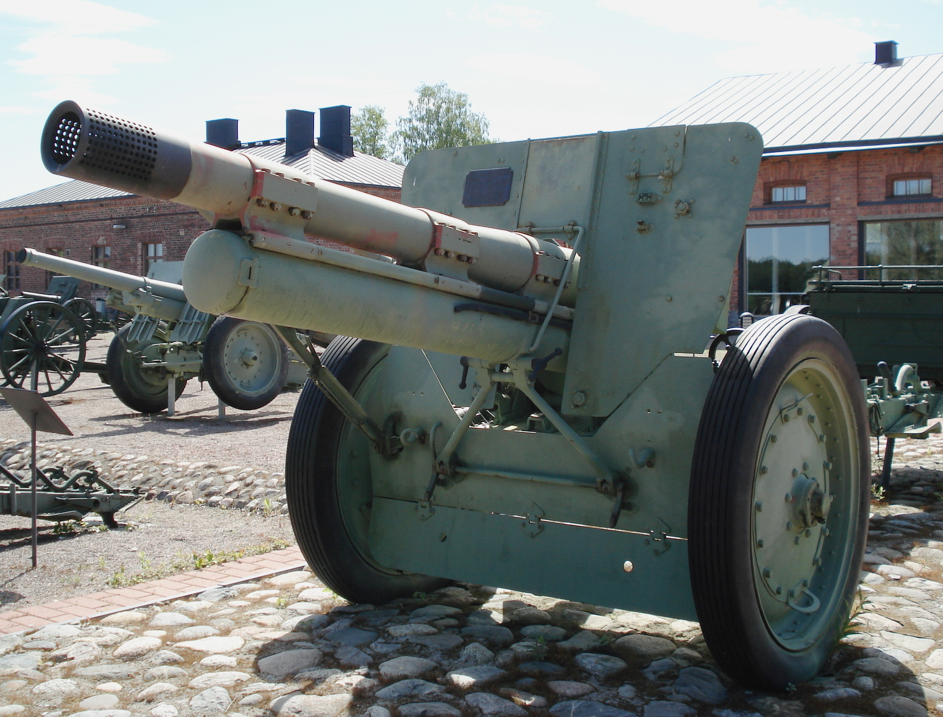 Finnish 105 mm H37 howitzer, displayed at the Finnish Artillery Museum in Hämeenlinna. More info